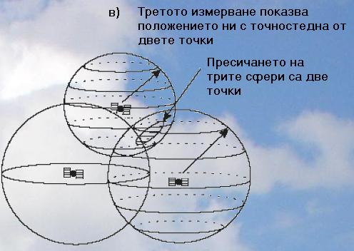 GPS trilateration p2